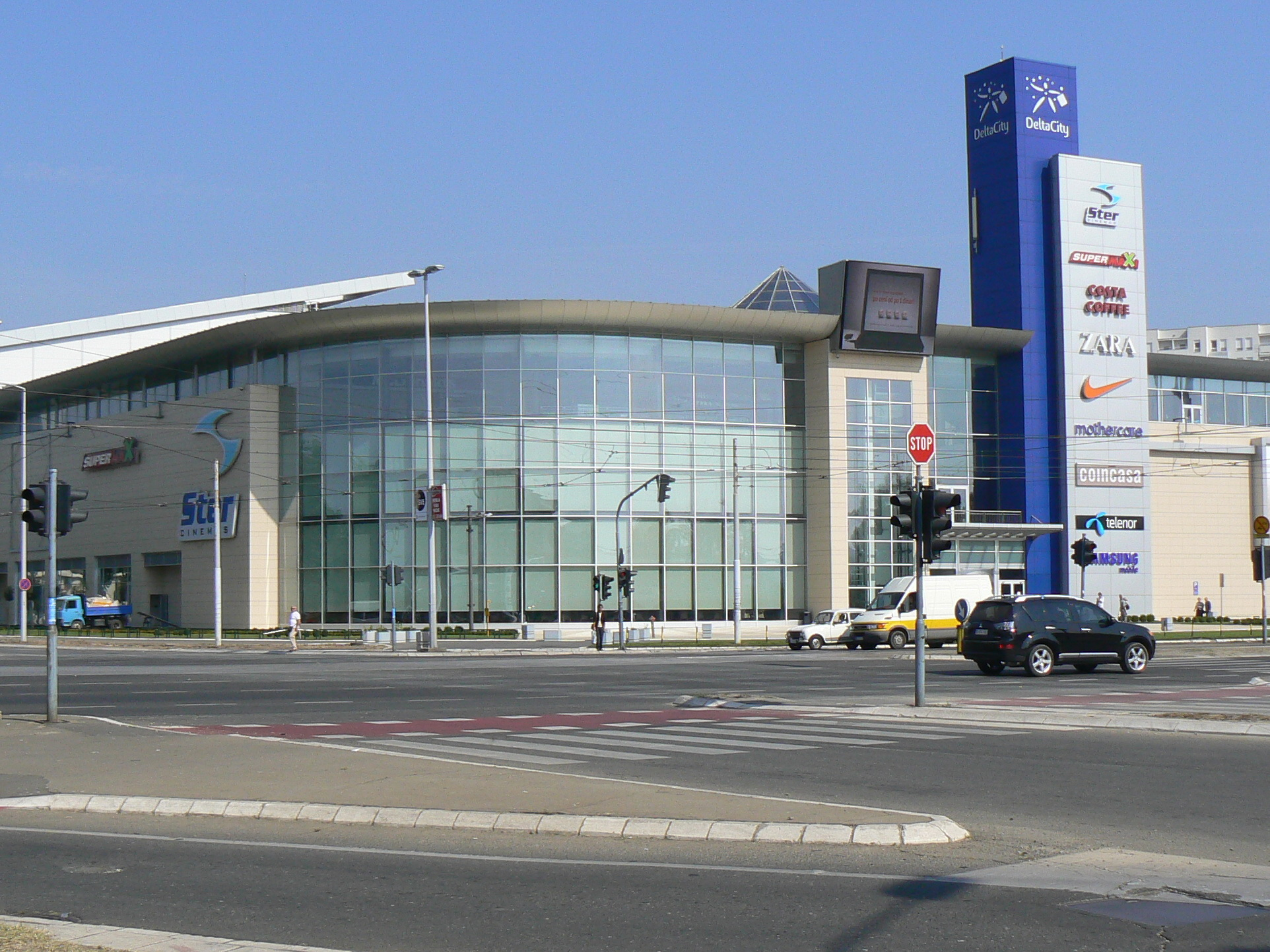 'Delta city' Shopping mall